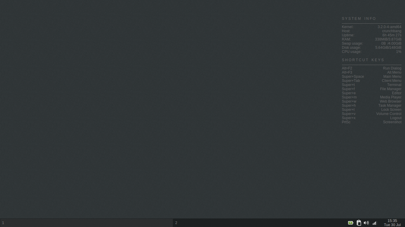 Screenshot of the default desktop of CrunchBang 11 Waldorf